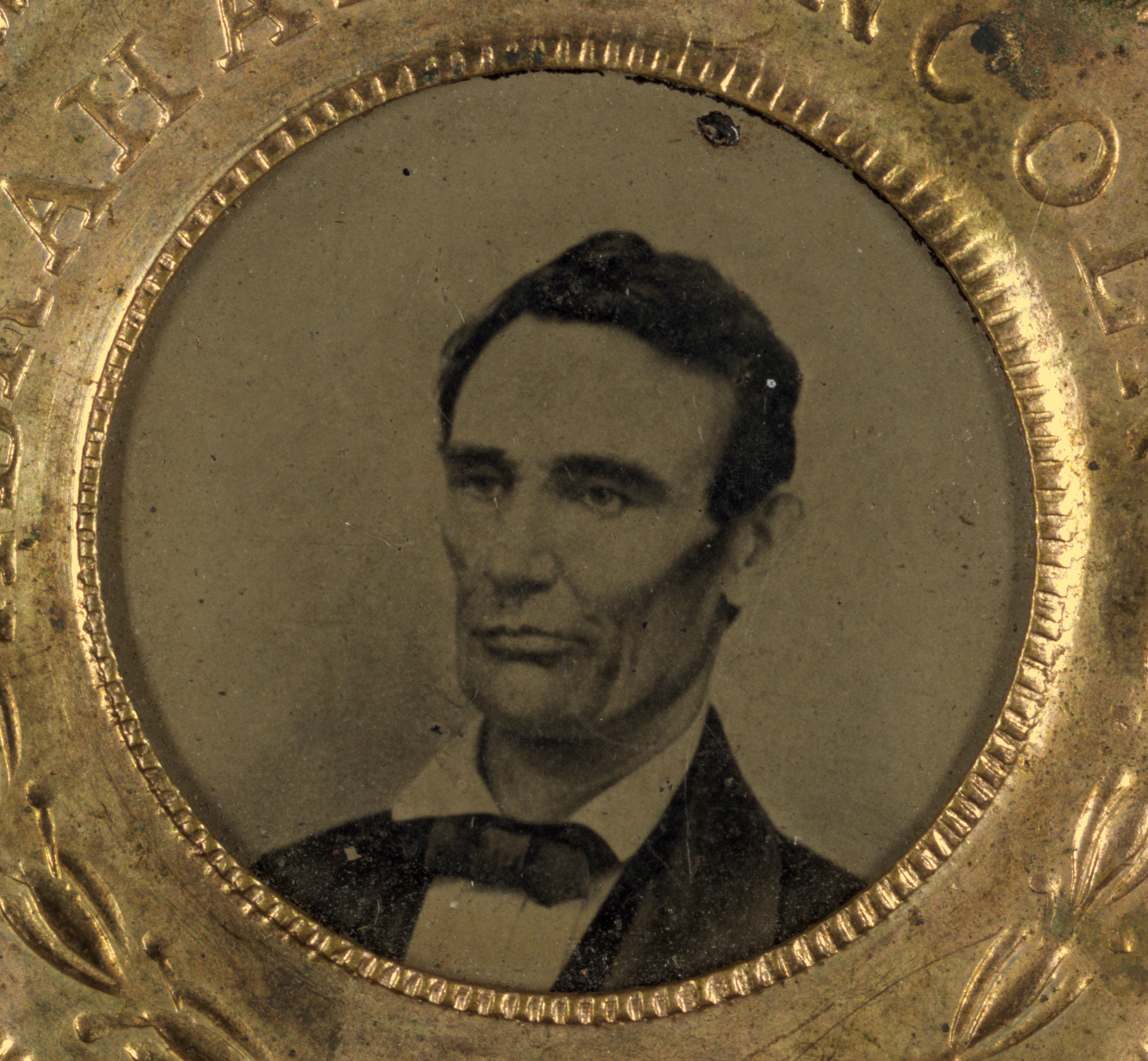 Campaign button for Abraham Lincoln, 1860. Portrait appears in tintype. Reverse side of button is a tintype of running mate Hannibal Hamlin. One of the earliest examples of photographic images on political buttons.